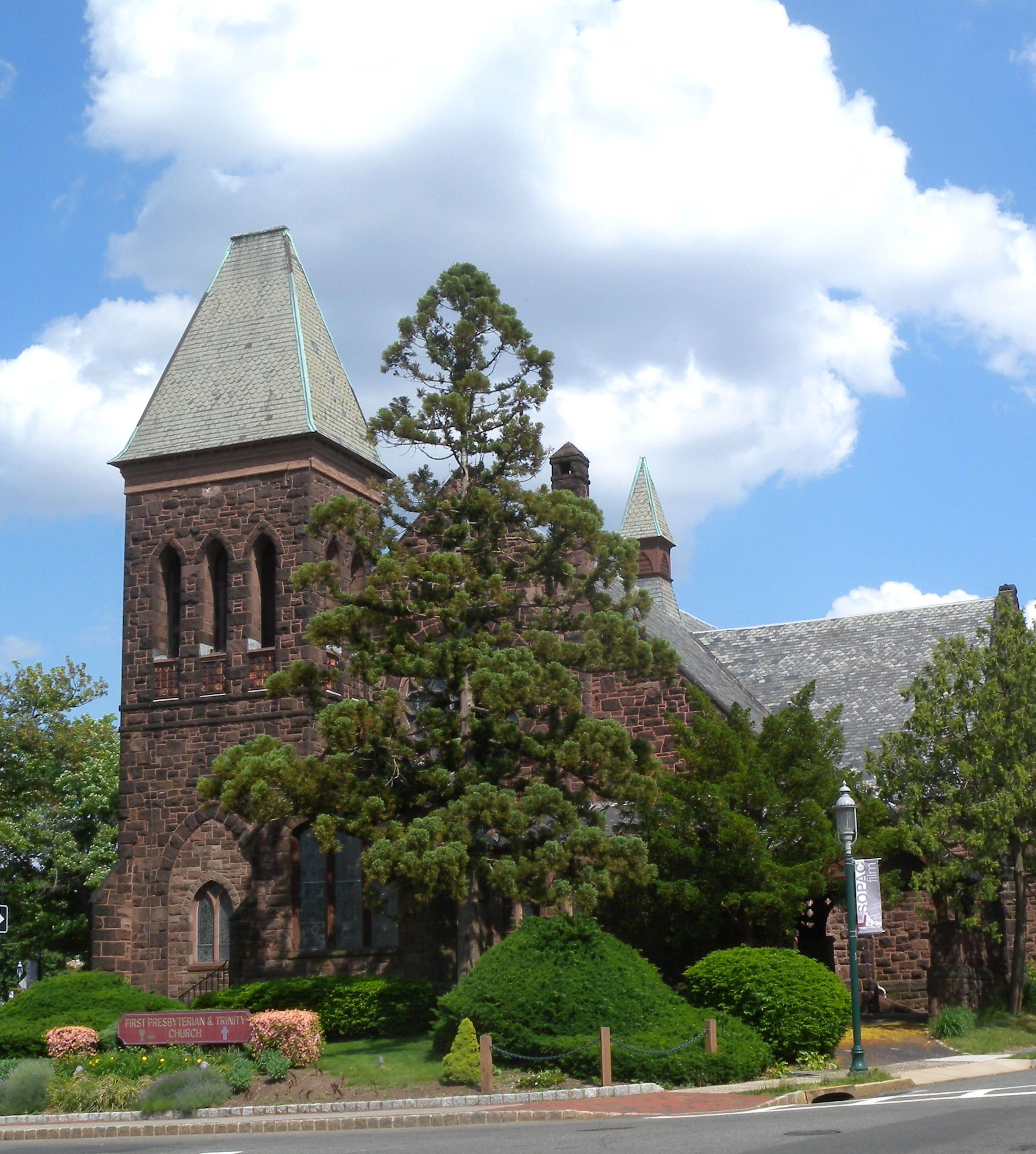 Looking east and uphill at First Presbyterian and Trinity Church in South Orange, NJ on a mostly sunny midday.